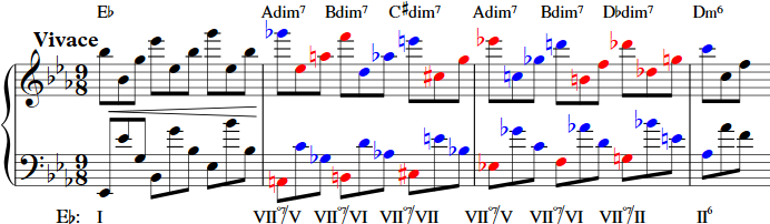 Chopin Prelude, Op. 20, No. 10 (1832) opening. Consecutive diminished seventh chords as whole tone scale harmony. Piston analyses viio as Vo9 with a missing root and indicated Roman numeral analysis below but does not include the macro analysis above. The notes of the diminished seventh chords are colored blue and red according to which of the two whole tone scales they belong.